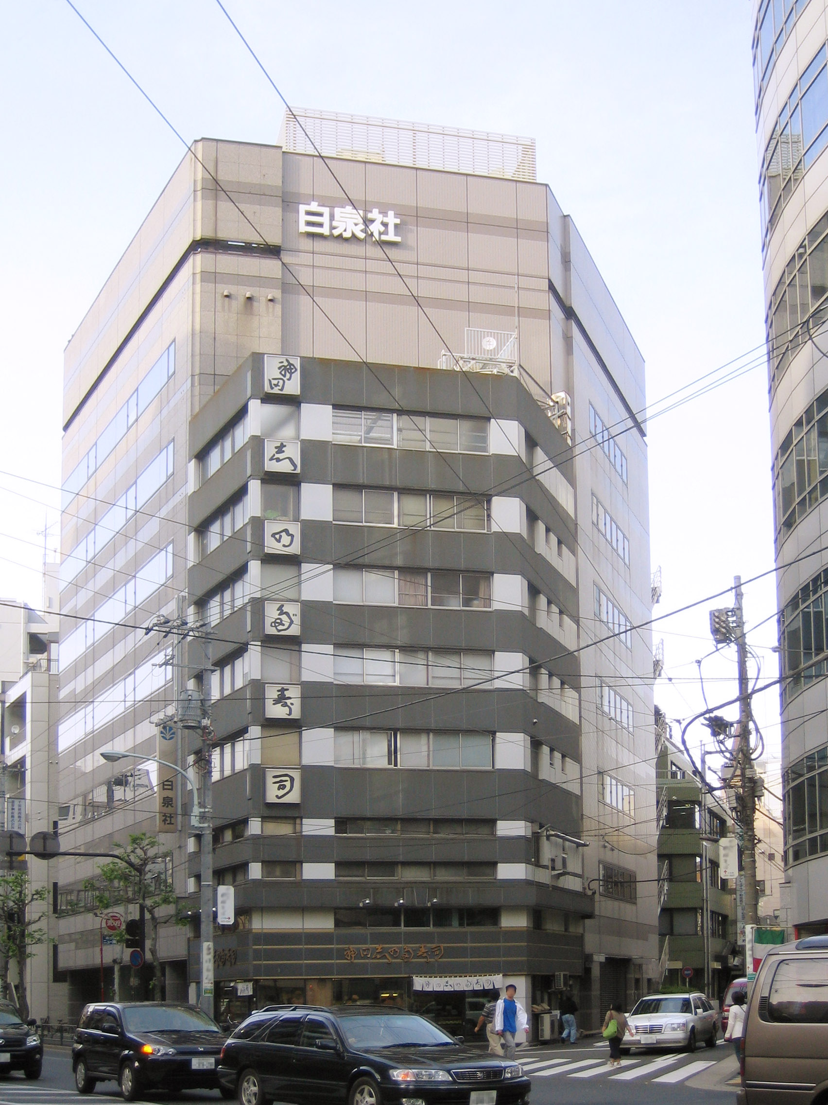 Hakusensha (白泉社), a Japanese publishing firm, located at 2-2-2 Kanda-Awajichō, Chiyoda, Tokyo, Japan